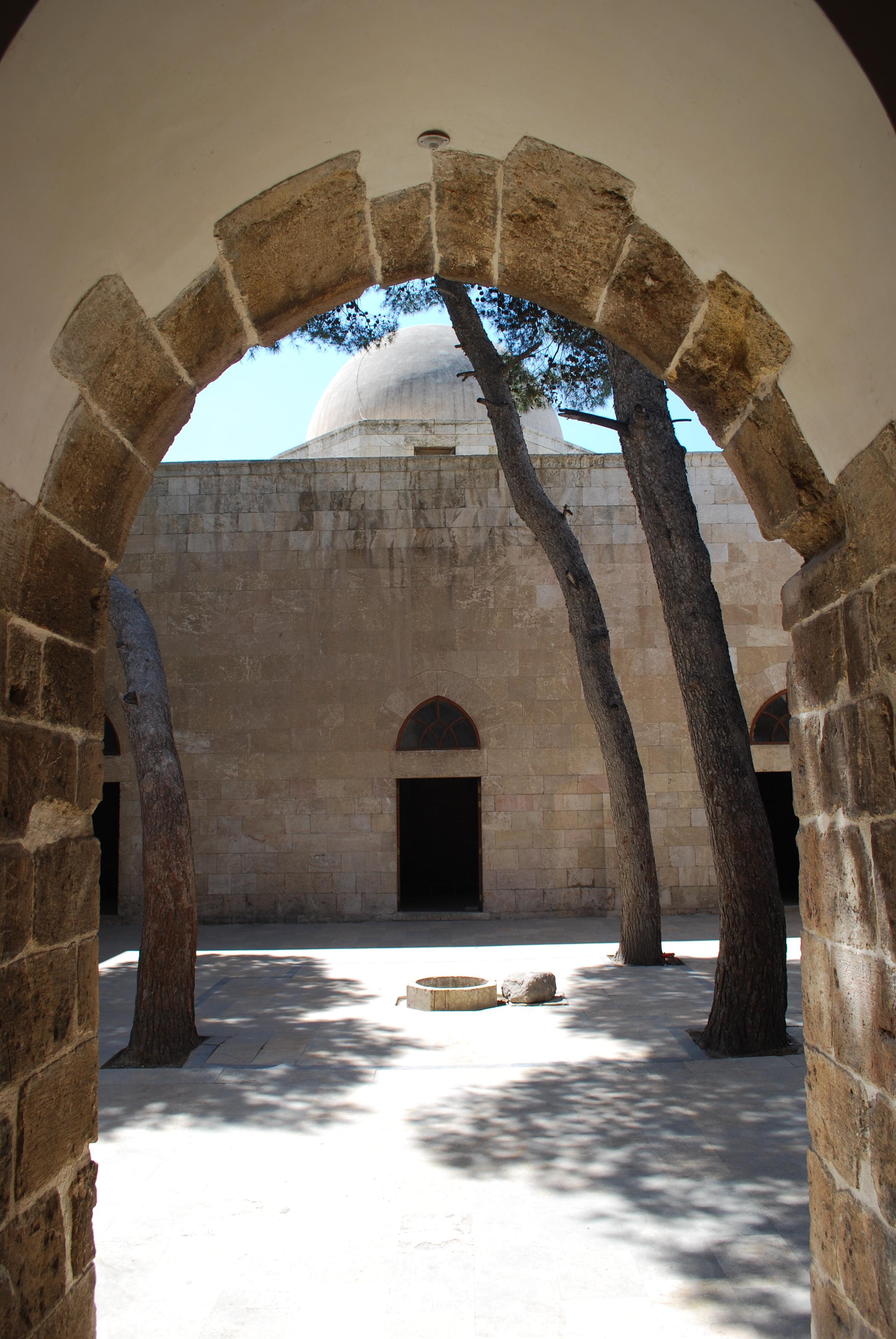 Citadel, Great Mosque, courtyard and madrasa, Aleppo in 2004